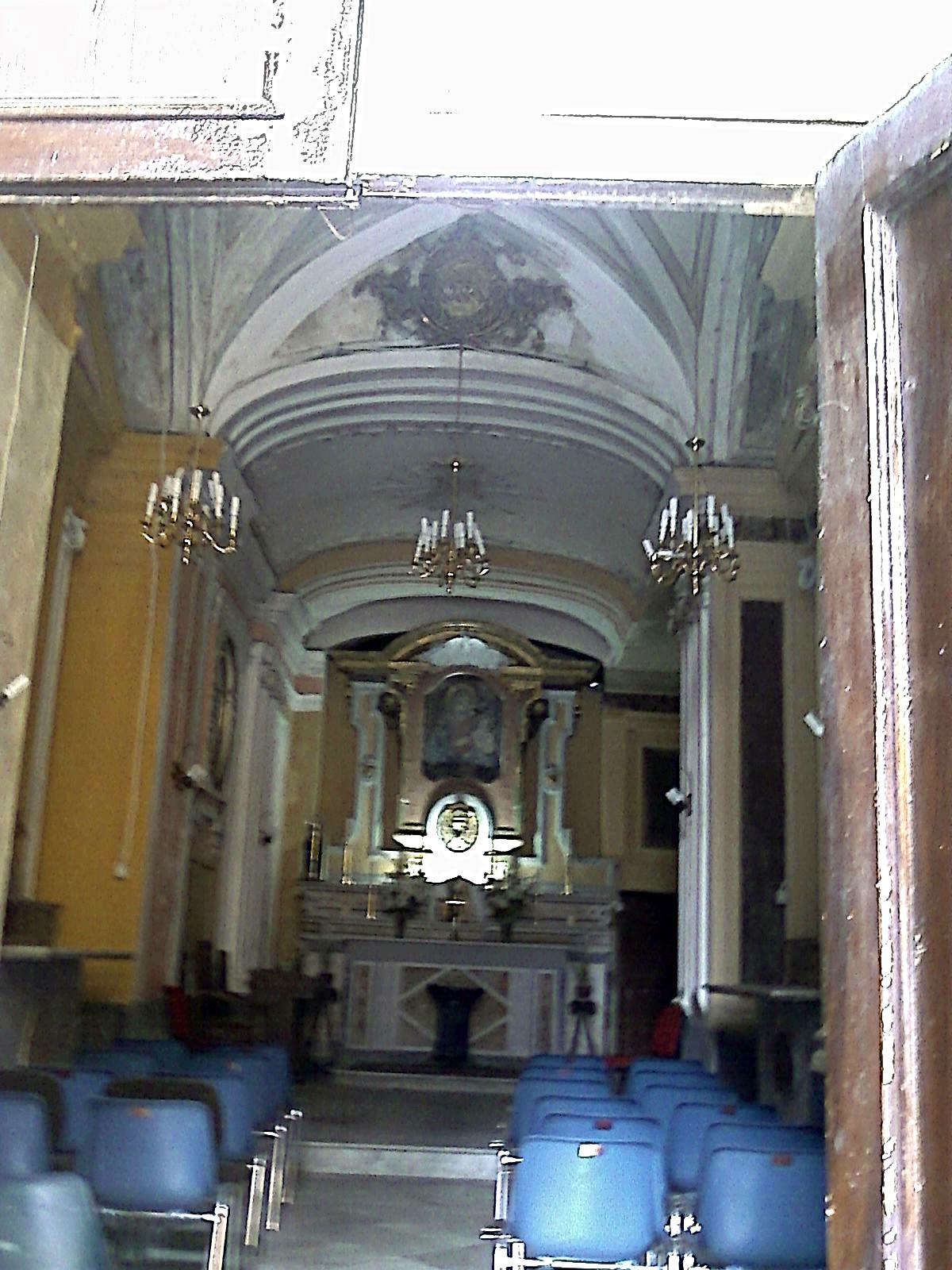 Chiesa dell'Arciconfraternita di Santa Maria della Sanità: Inside.